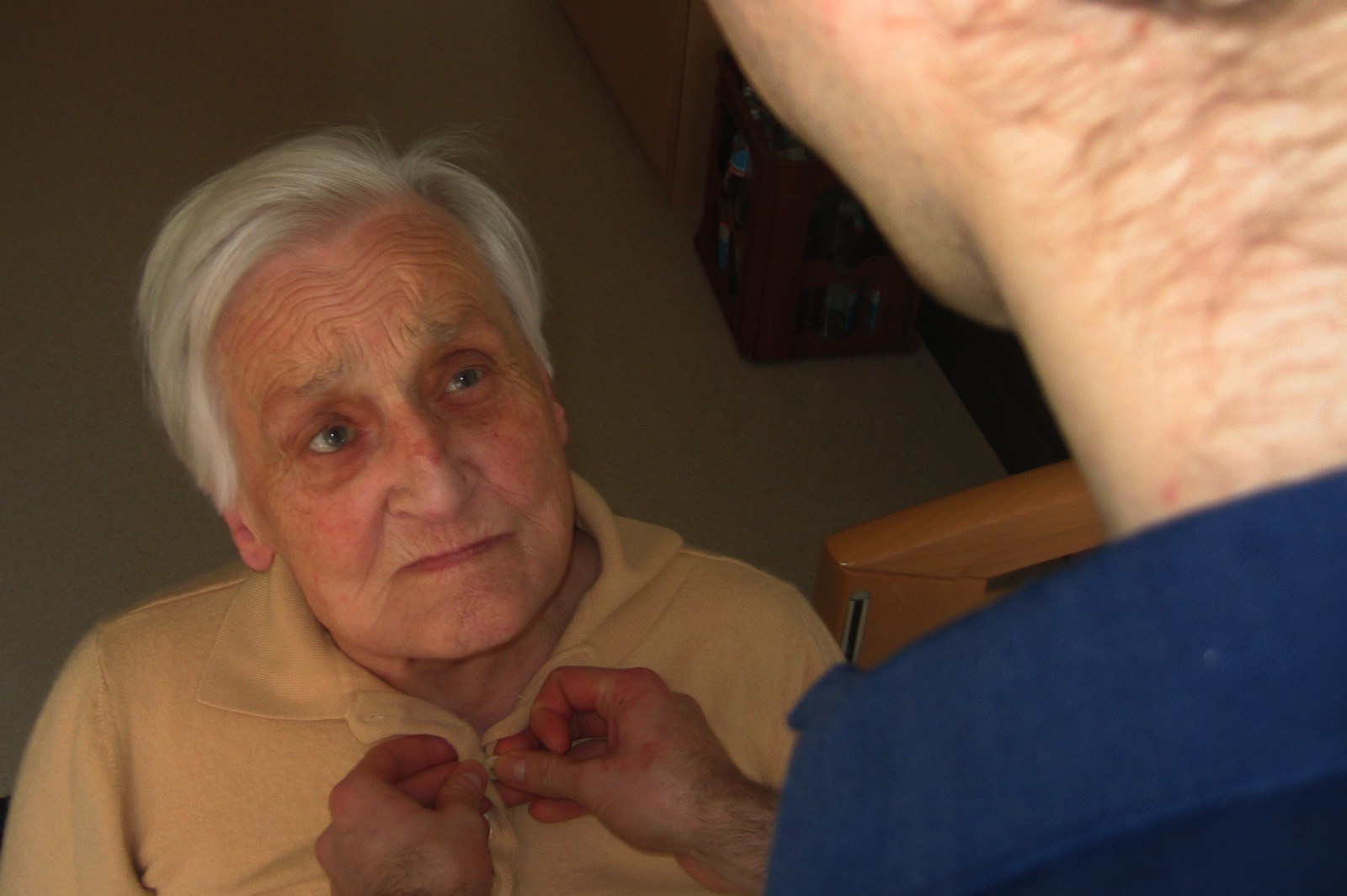 An old man is receiving help to dress up